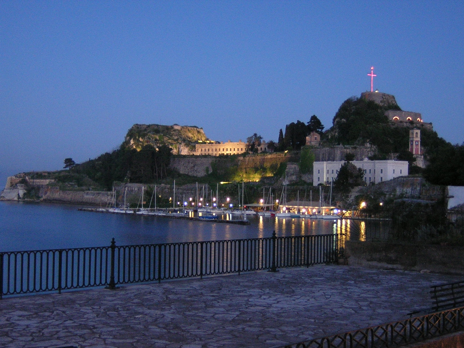 The old citadel of Corfu city located at its edge, Corfu Island, Greece